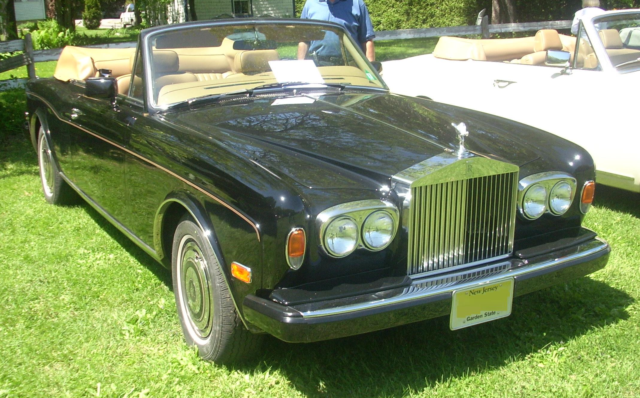 1988 Rolls-Royce Corniche photographed at the 2008 Hudson British Car Show.